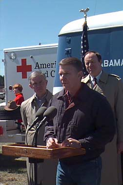 FEMA Director James Lee Witt speaks during the press conference at Elba airport. Behind him are Senator Jeff Sessions (left) and Senator Richard Shelby (right).